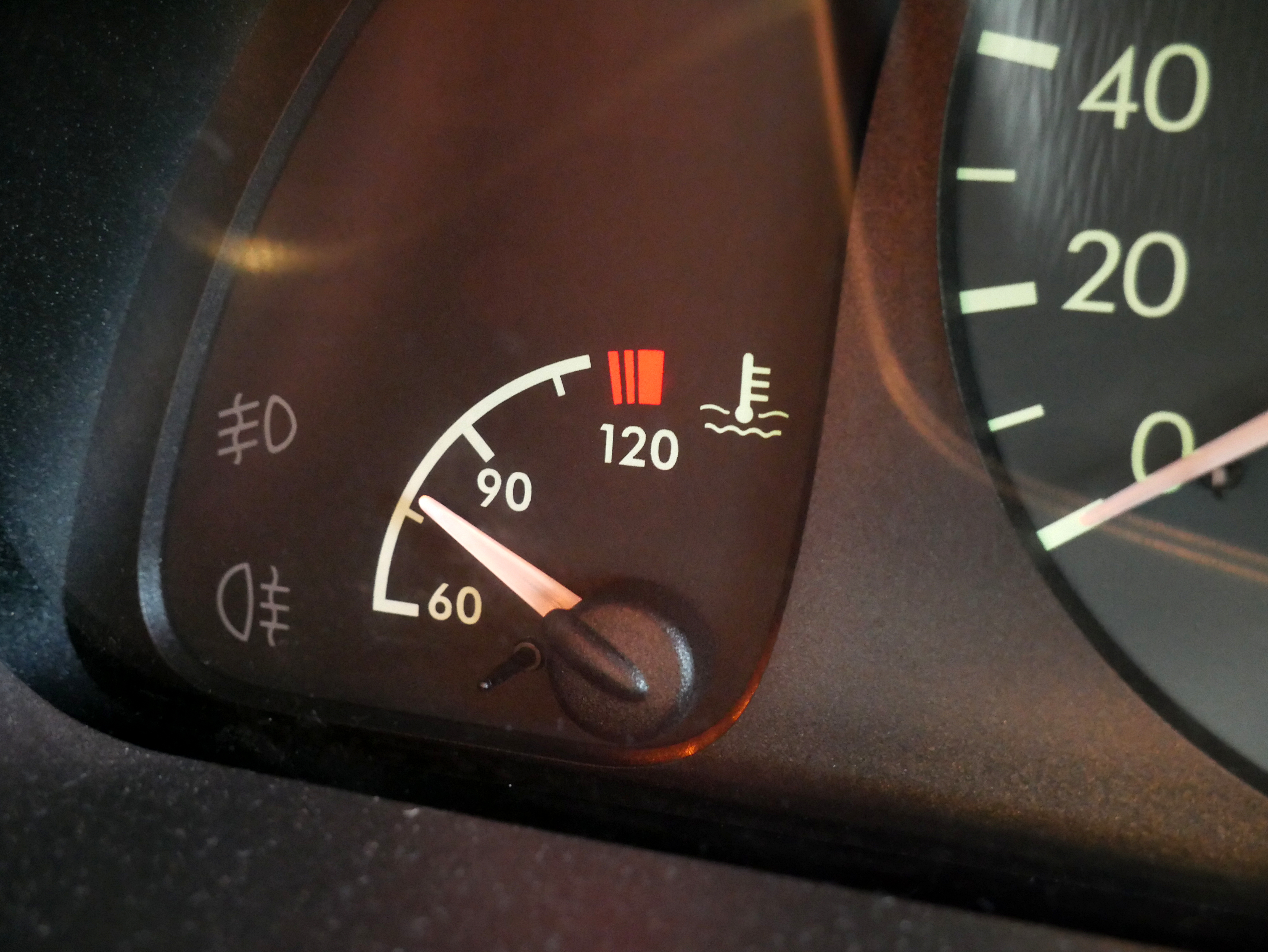 Car coolant temperature gauge.